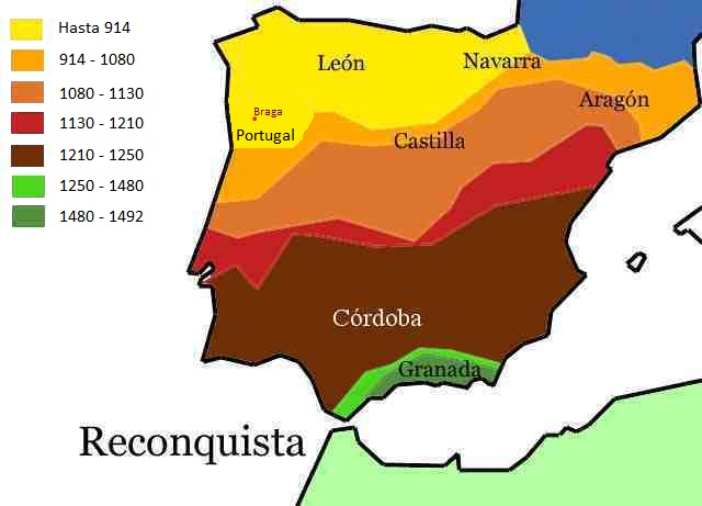 Reconquista